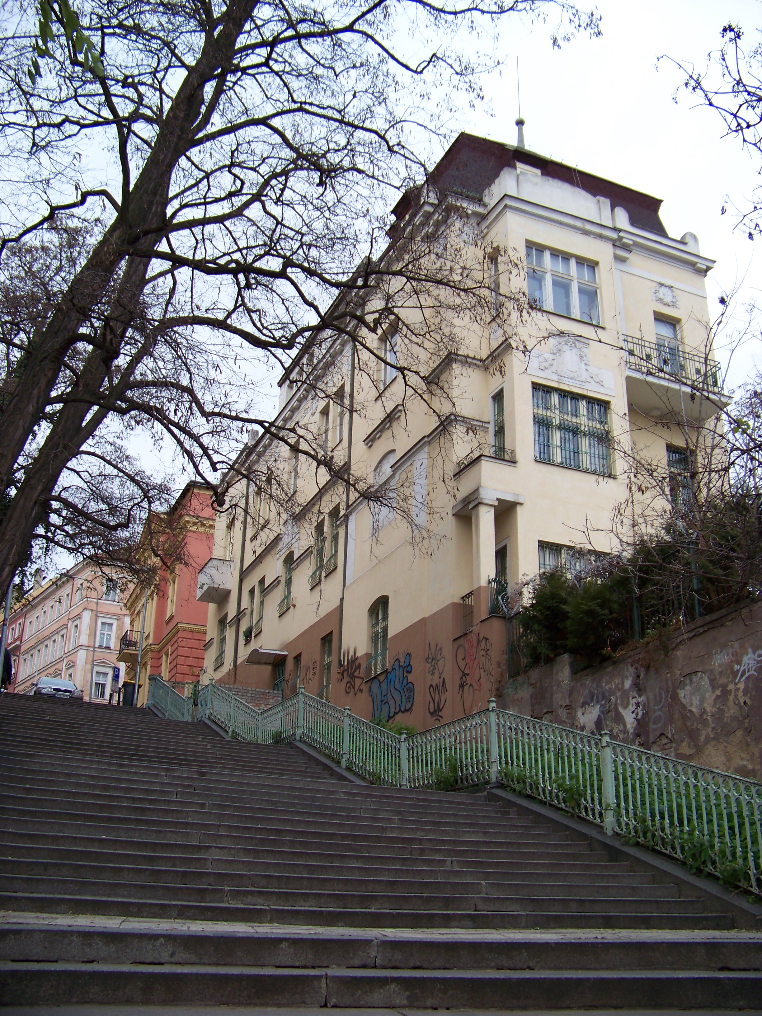 Prague-Vinohrady, the Czech Republic. Nusle Staircase, Šafaříkova 1576/2. - OpenStreetMap(Info)